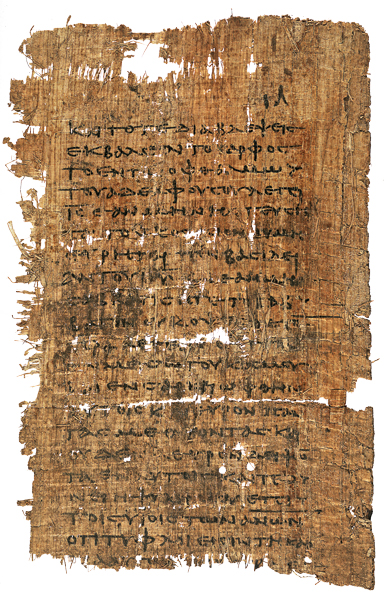 folio recto of P. Oxy. 1